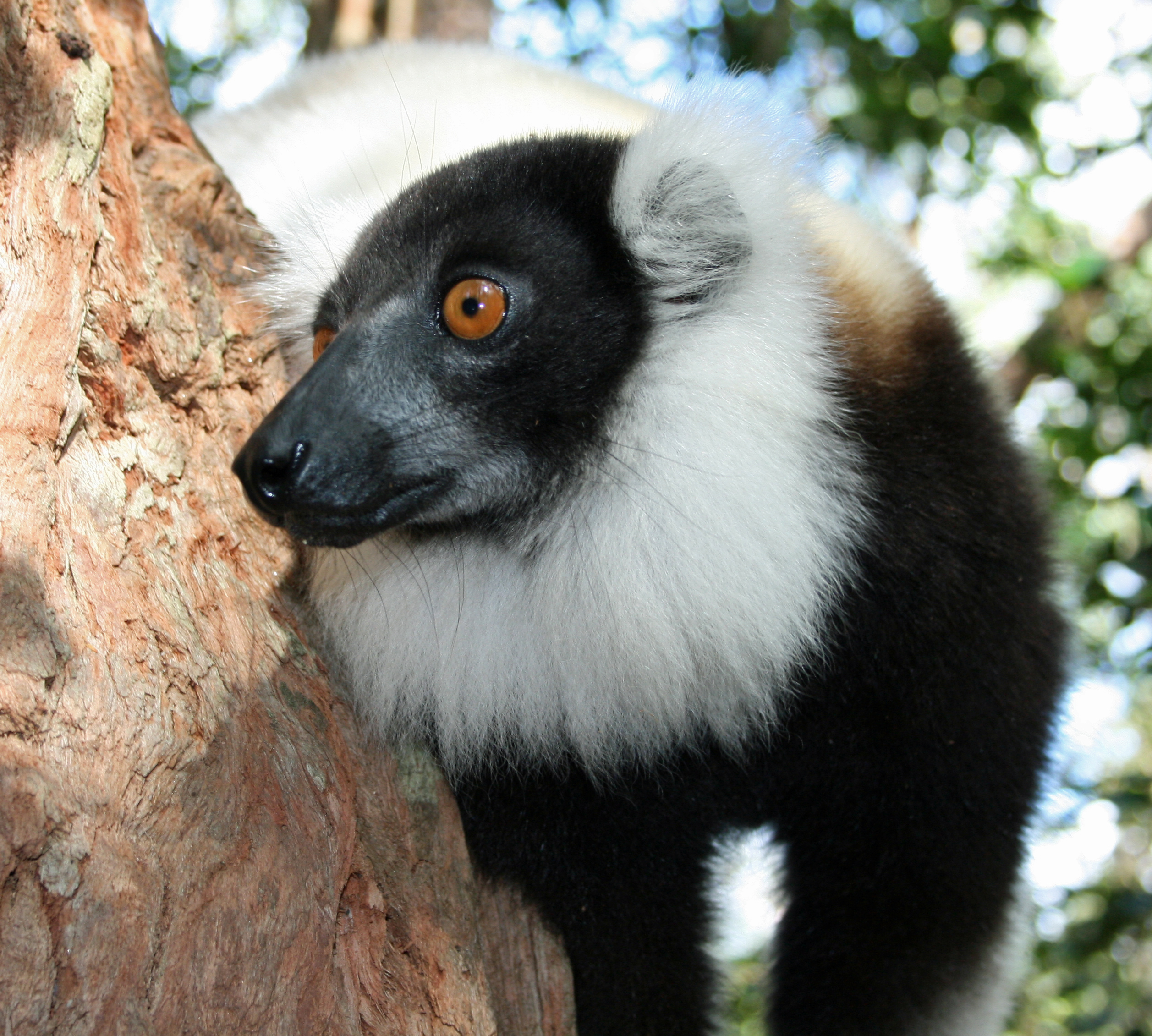 Black-and-white ruffed lemur